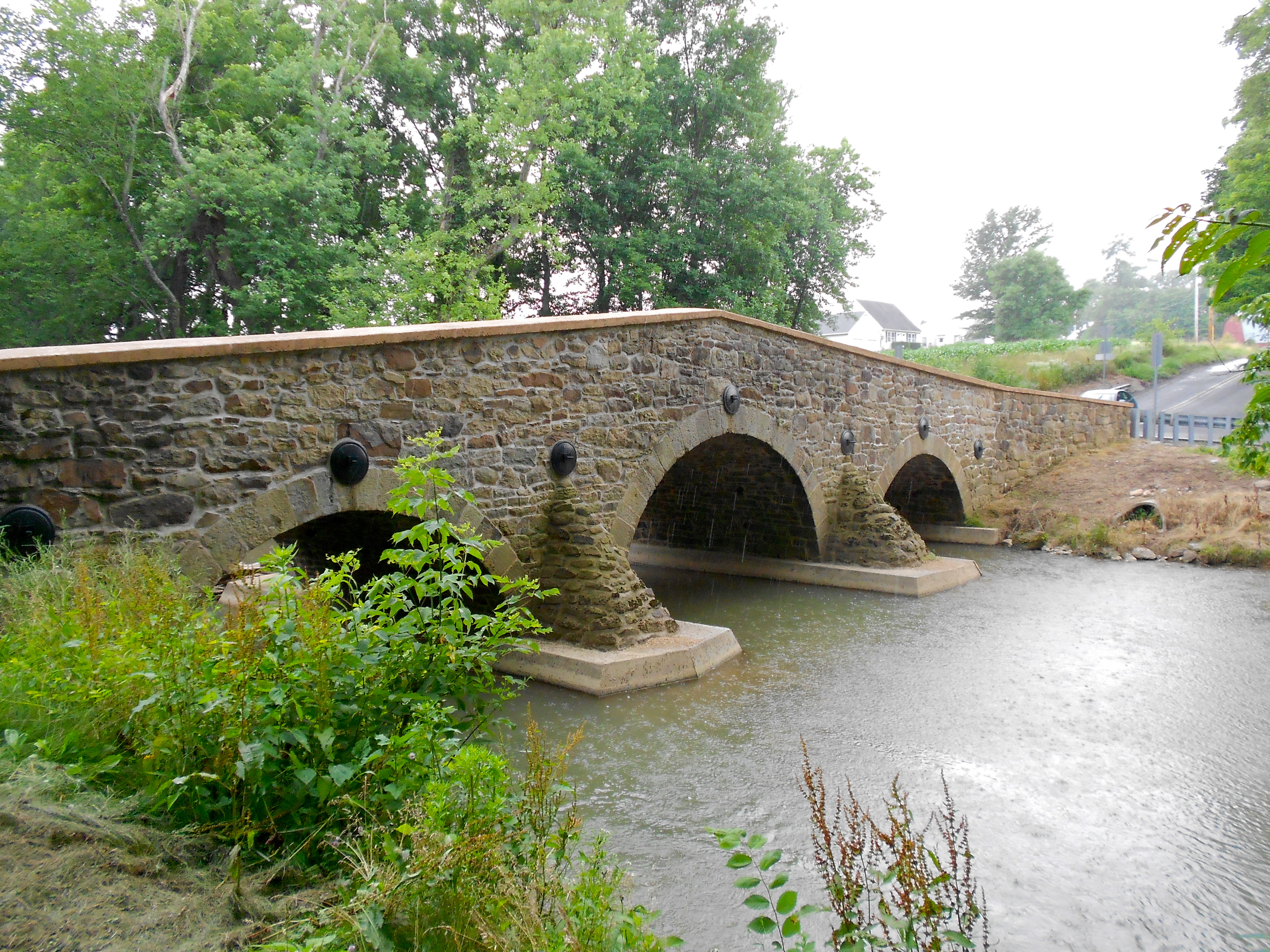 John's Burnt Mill Bridge, or Camelback Bridge, SW of New Oxford on Township 428, Mount Pleasant Township, Adams County, Pennsylvania crossing over to Oxford Township Area: less than one acre Built: 1800 Added to NRHP: December 16, 1974